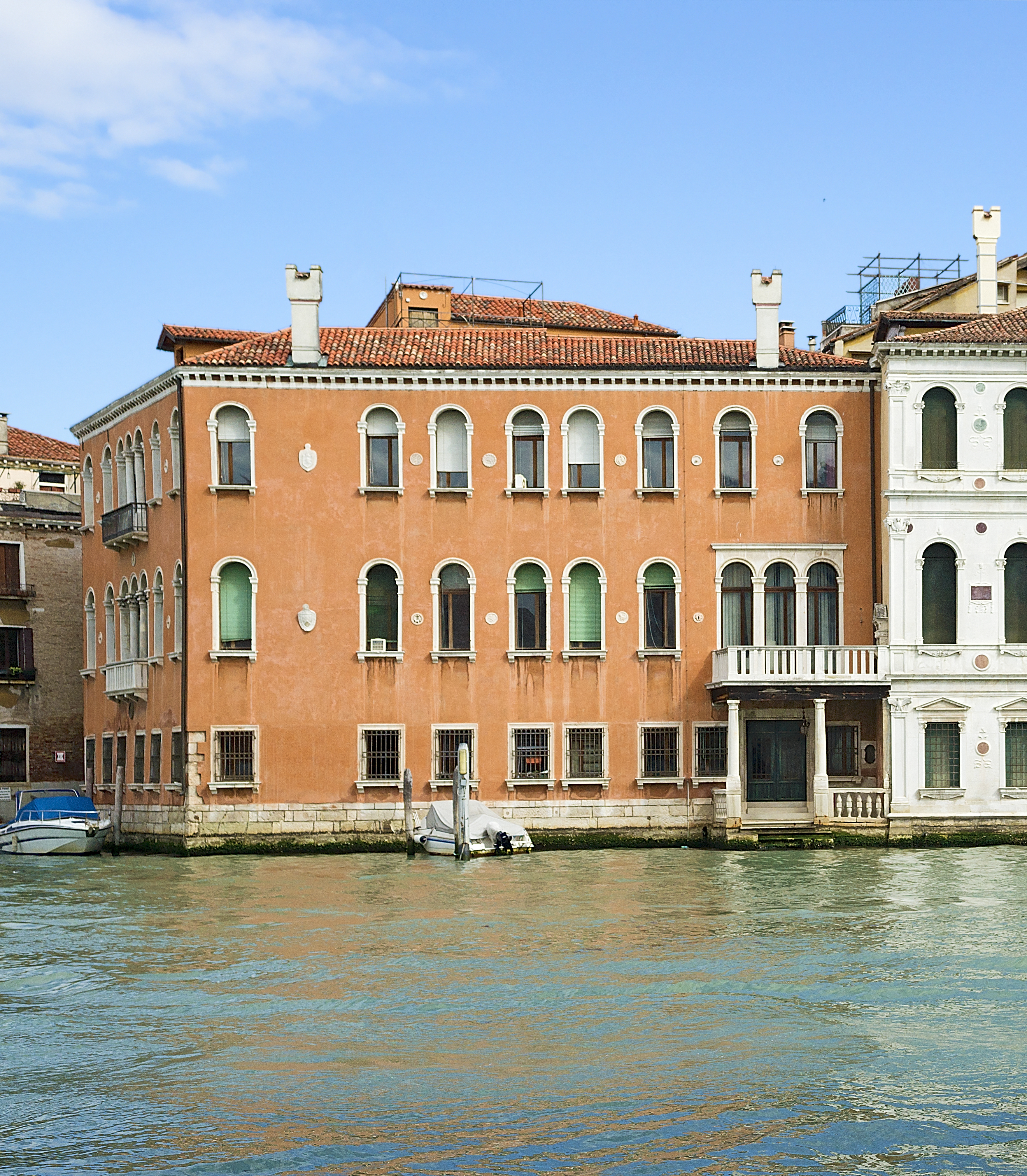 Ca' Cappello Layard Carnelutti Venice. Facade on Grand Canal.